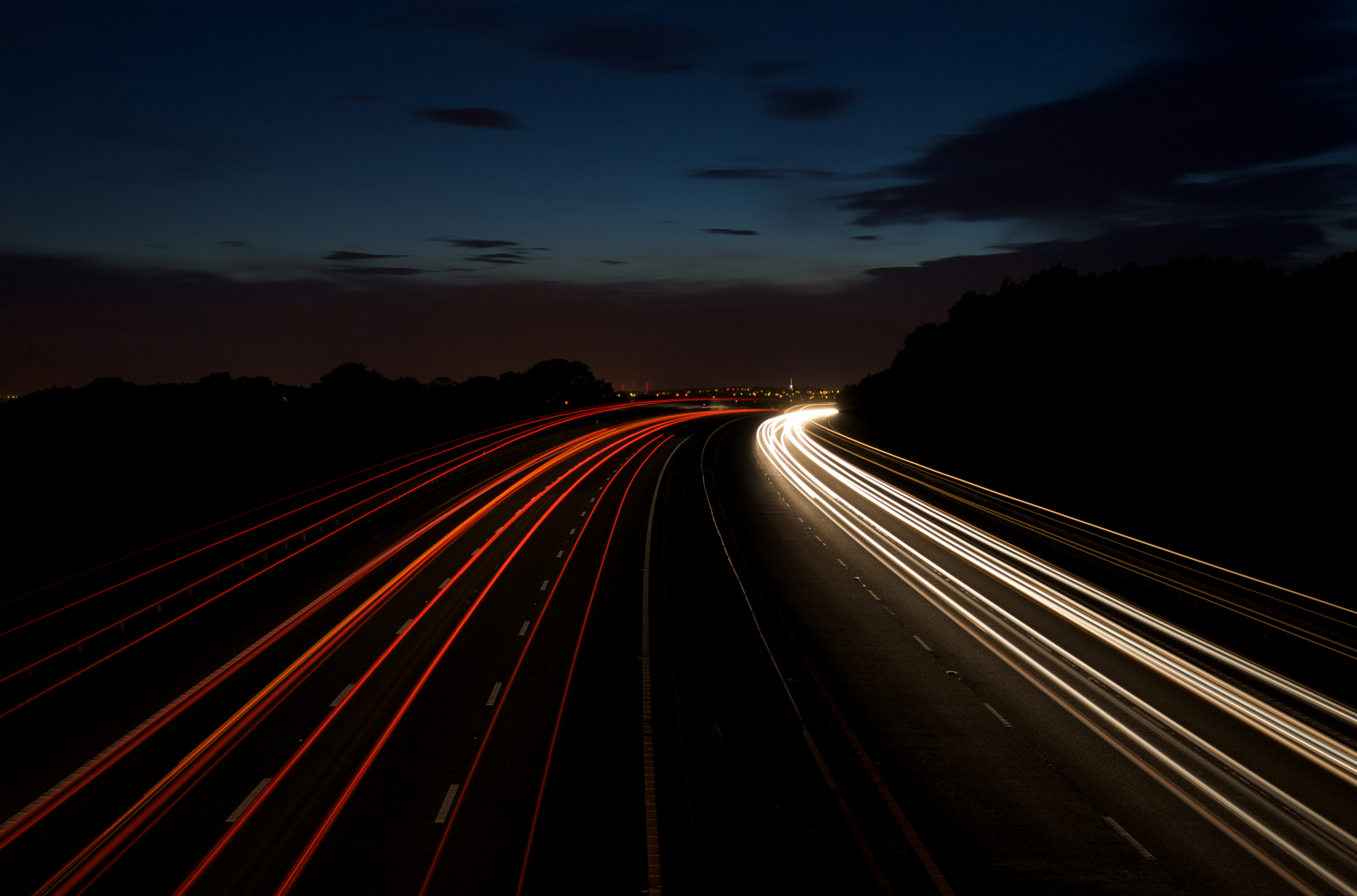 M61 at night looking towards Chorley